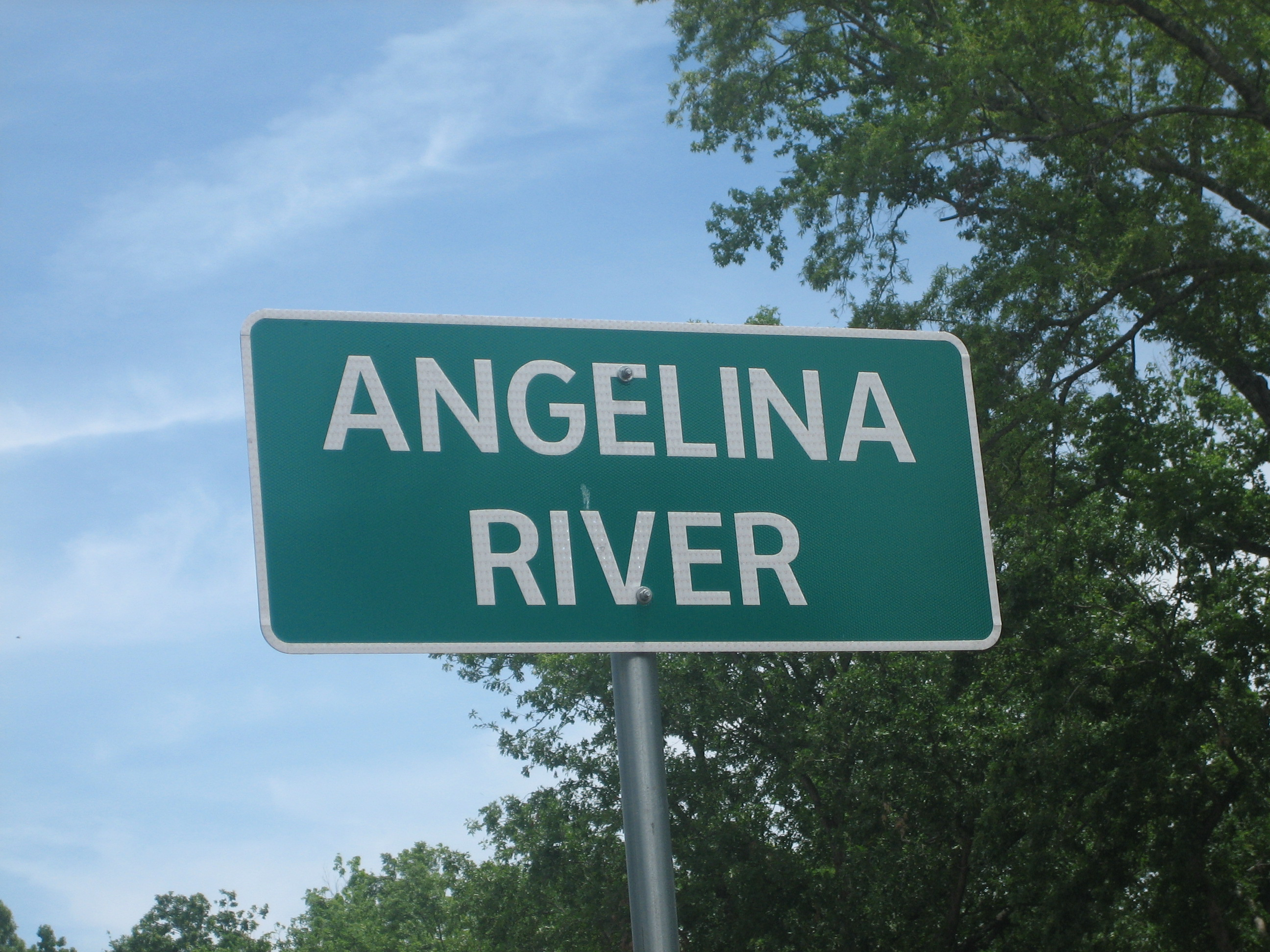 I took photo on May 27, 2009.Billy Hathorn (talk) 18:07, 31 May 2009 (UTC)